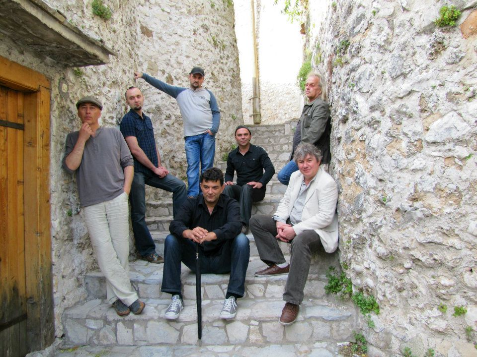 Mostar Sevdah Reunion and Dragi Sestic (Amir Grabus)